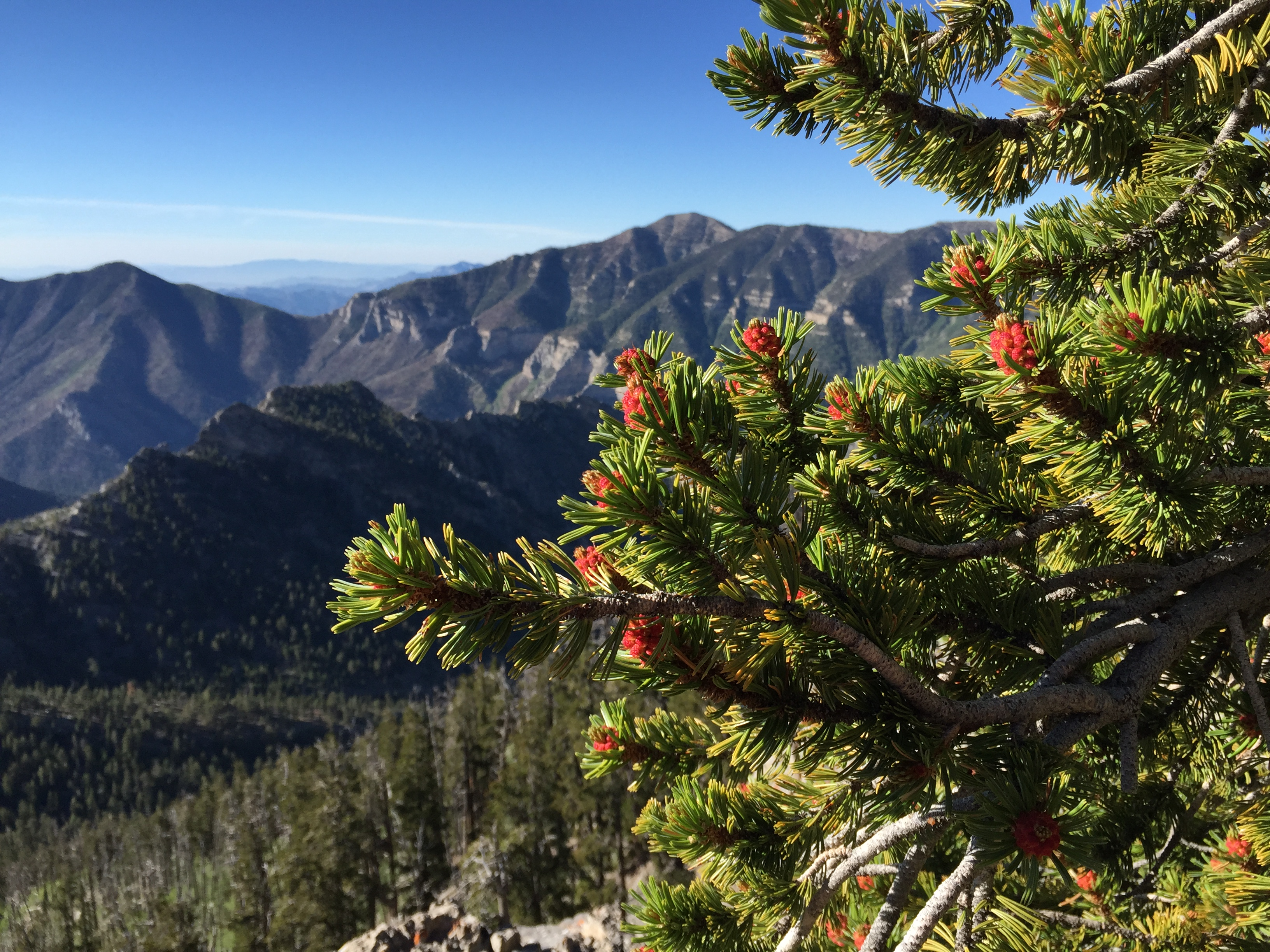 Great Basin Bristlecone Pine leaves and pollen cones along the North Loop Trail about 5.6 miles west of the trailhead in the Mount Charleston Wilderness, Nevada